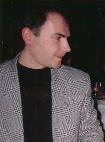 Photograph taken during the dinner with family and friends in Joliet, Illinois.